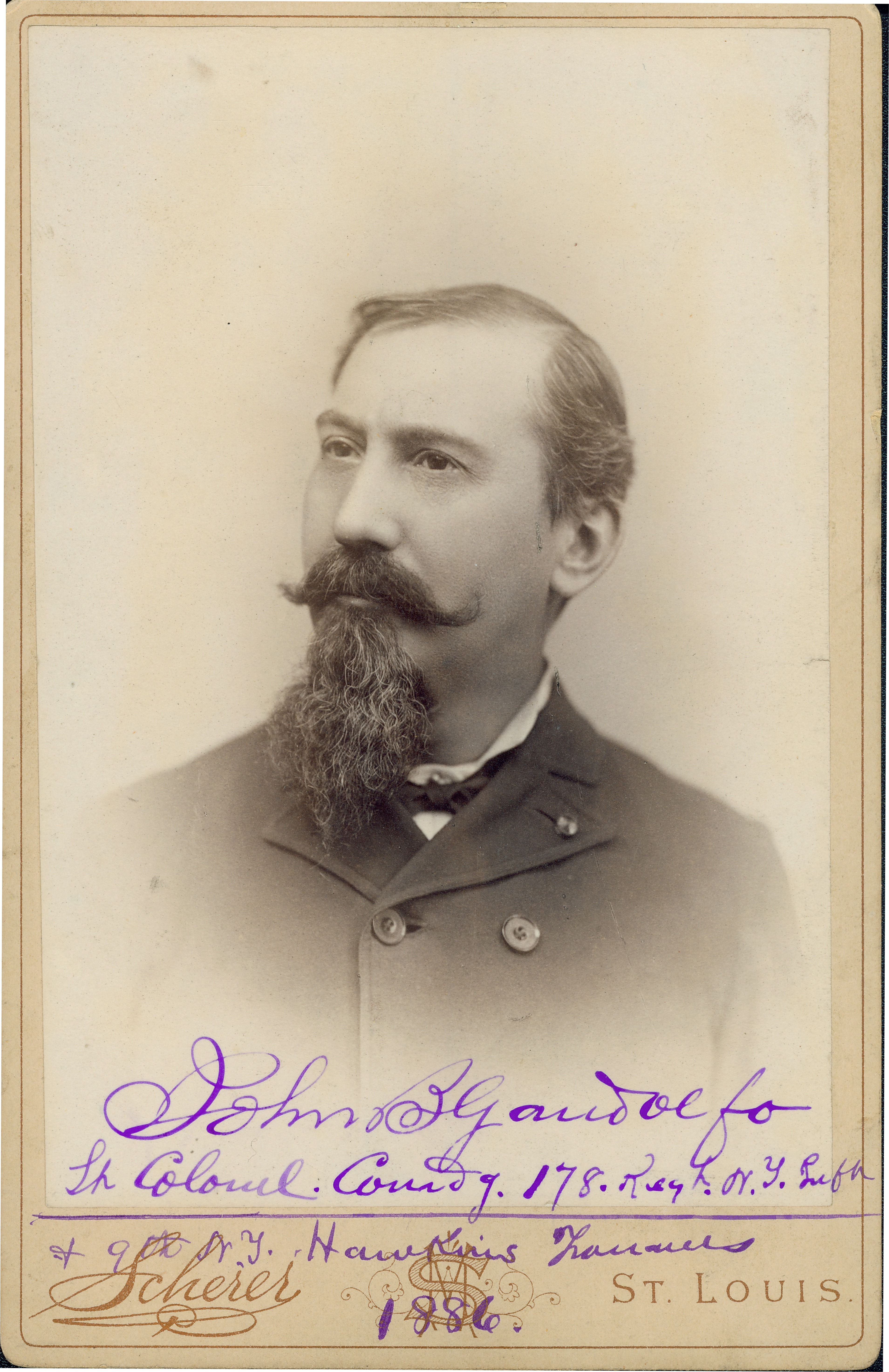 Bust portrait of Lieutenant Colonel John B. Gandolfo wearing a civilian jacket, and with his head turned to the left. "John B. Gandolfo Lt Colonel. Commdg. 178. Regt. N.Y. Inft & 9th N.Y. [illegible] [illegible] 1886." (written below image). "Scherer" and "ST. LOUIS." (printed below image).Title: John B. Gandolfo, Lieutenant Colonel, Commanding 178th regiment, New York Volunteer infantry (Union).